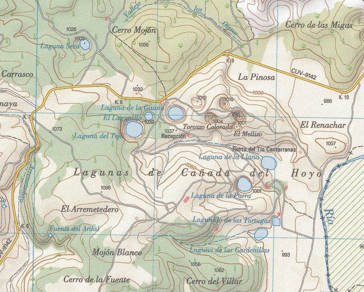 Fragment 0635c2 of the National Topographic Map of Spain in 2015 at a scale of 1:25000 printed and scanned with a resolution of 250 ppi. It shows Fuentes.